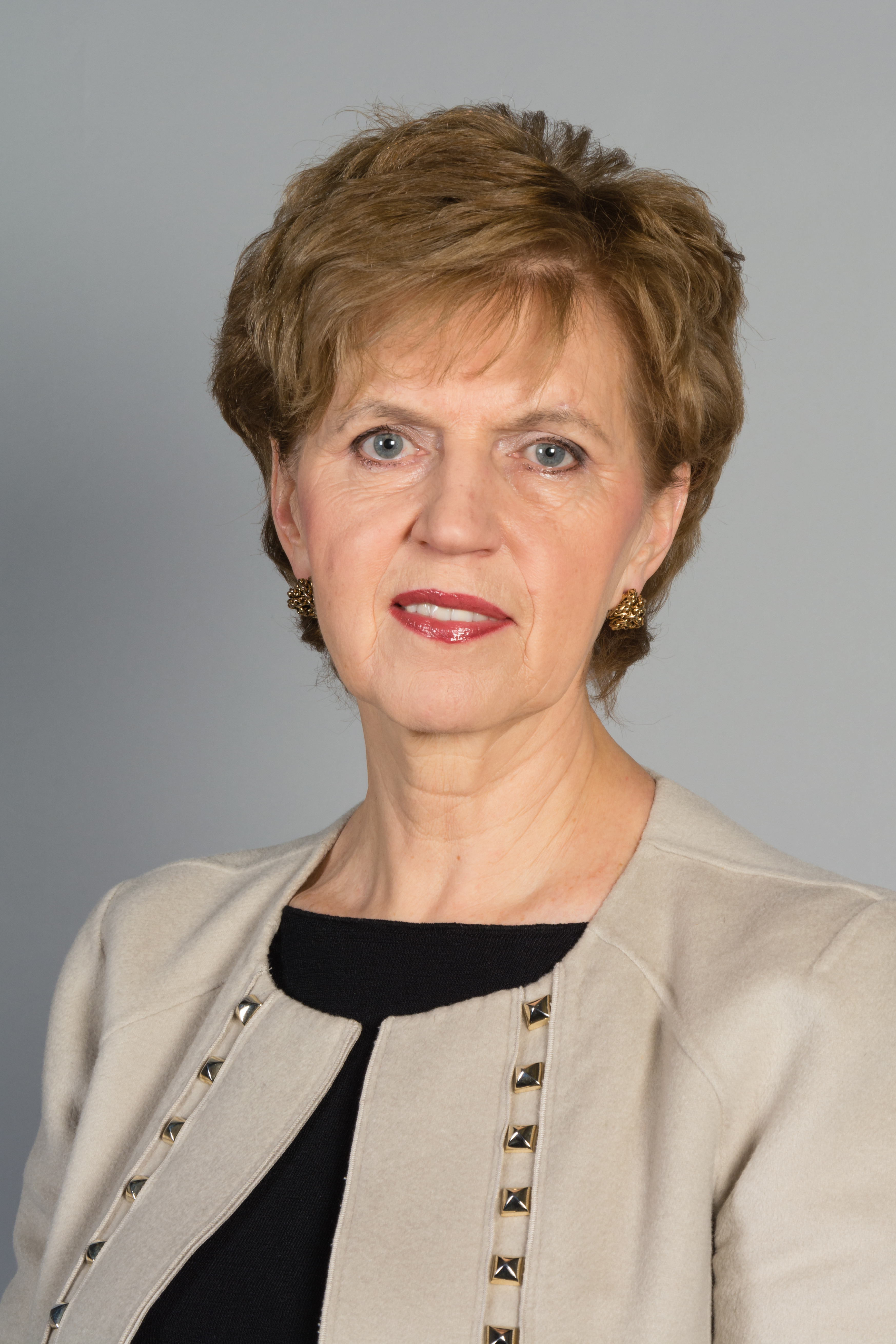 Inese Vaidere, Latvia, 2014 Member of the European Parliament